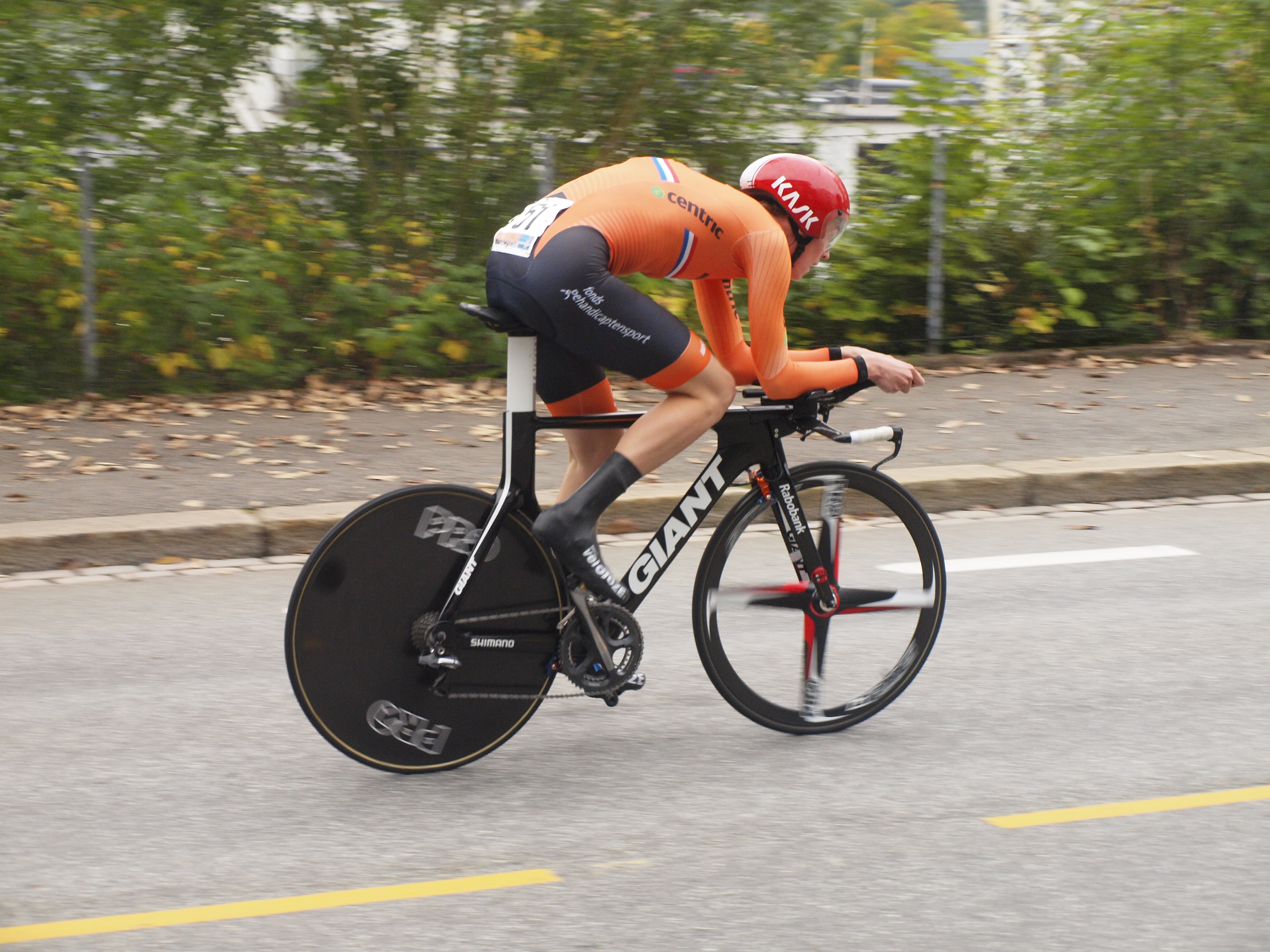 Thymen Arensman at the 2017 UCI World Championships